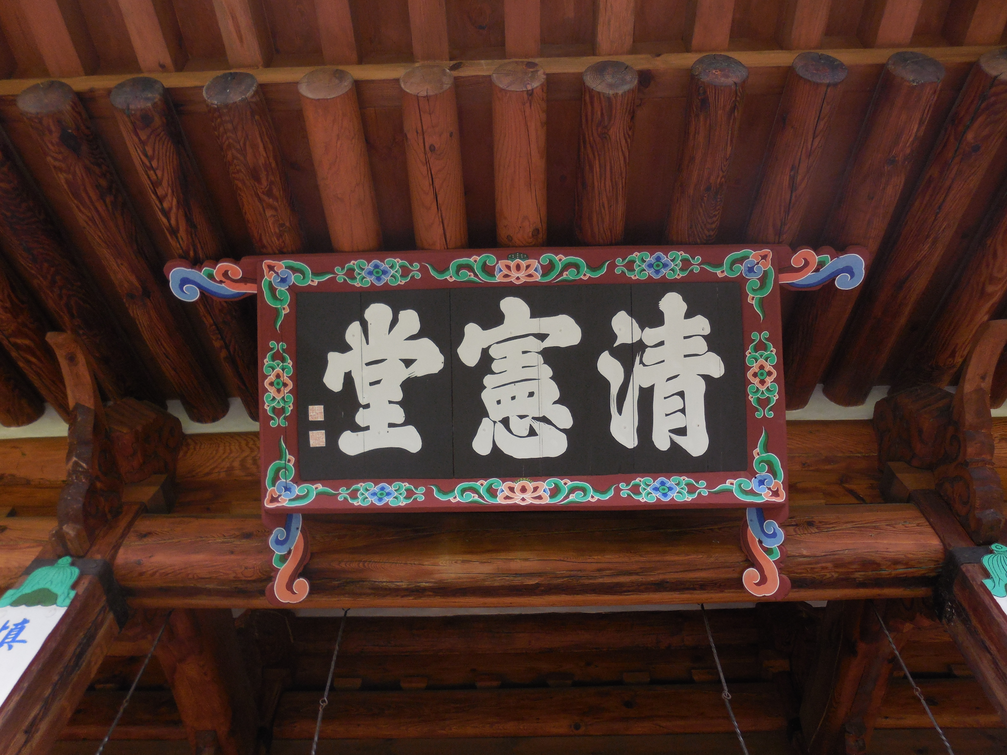 Plaque of Samgunbu Cheongheondang.